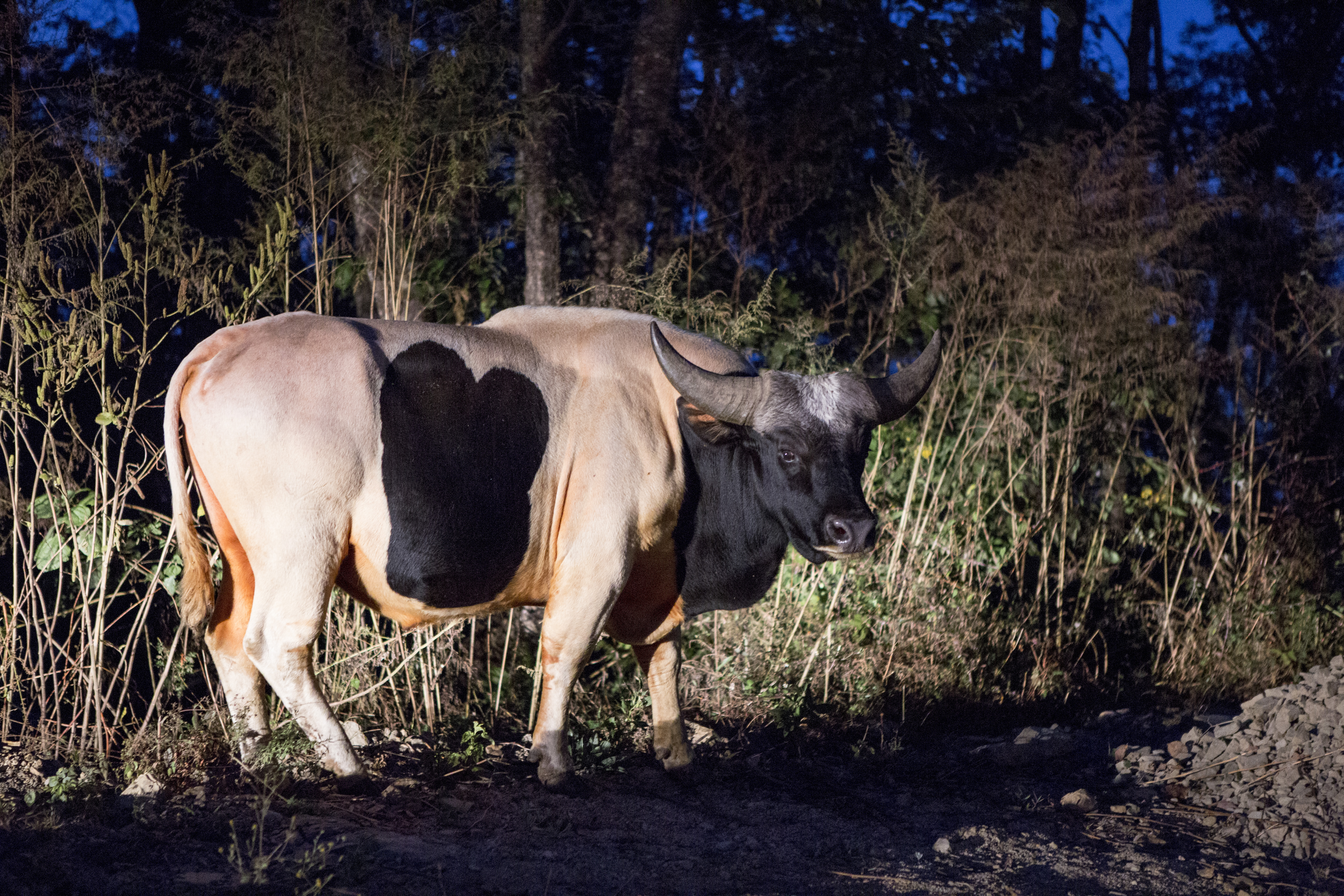 The gayal (Bos frontalis), also known as mithun, is a large semi-domesticated bovine distributed in Northeast India, Bangladesh, northern Burma and in Yunnan, China. Picture shot using car lights .